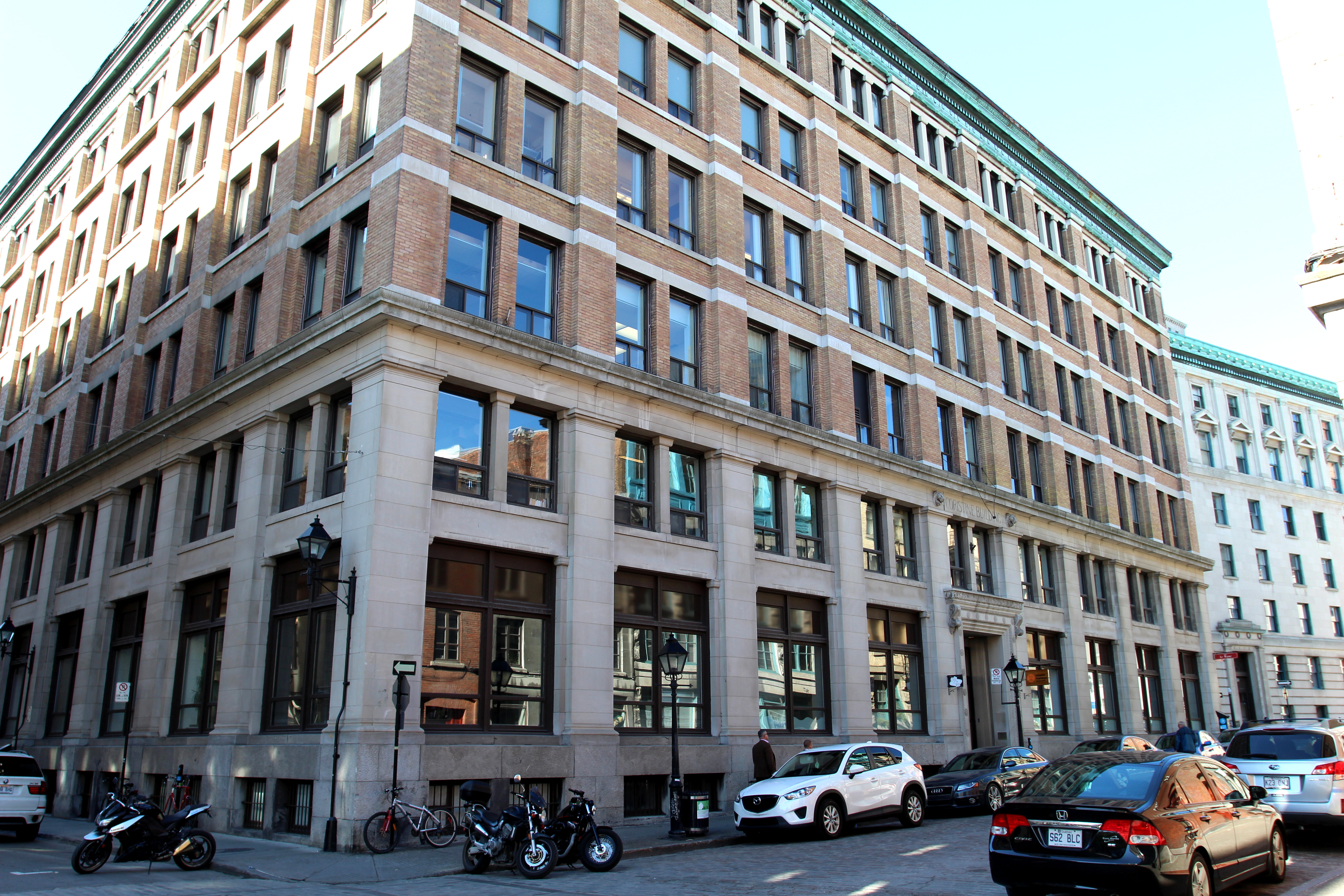 Ludia's building in Montreal's Old Port